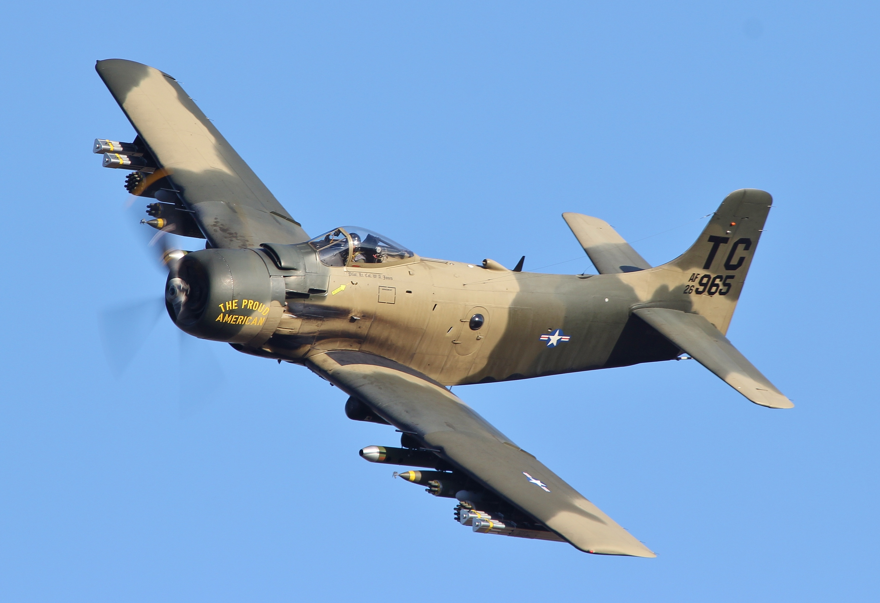 The Douglas A-1 Skyraider (AD-4NA, 126965) is flying. This aircraft is owned by Heritage Flight Museum.